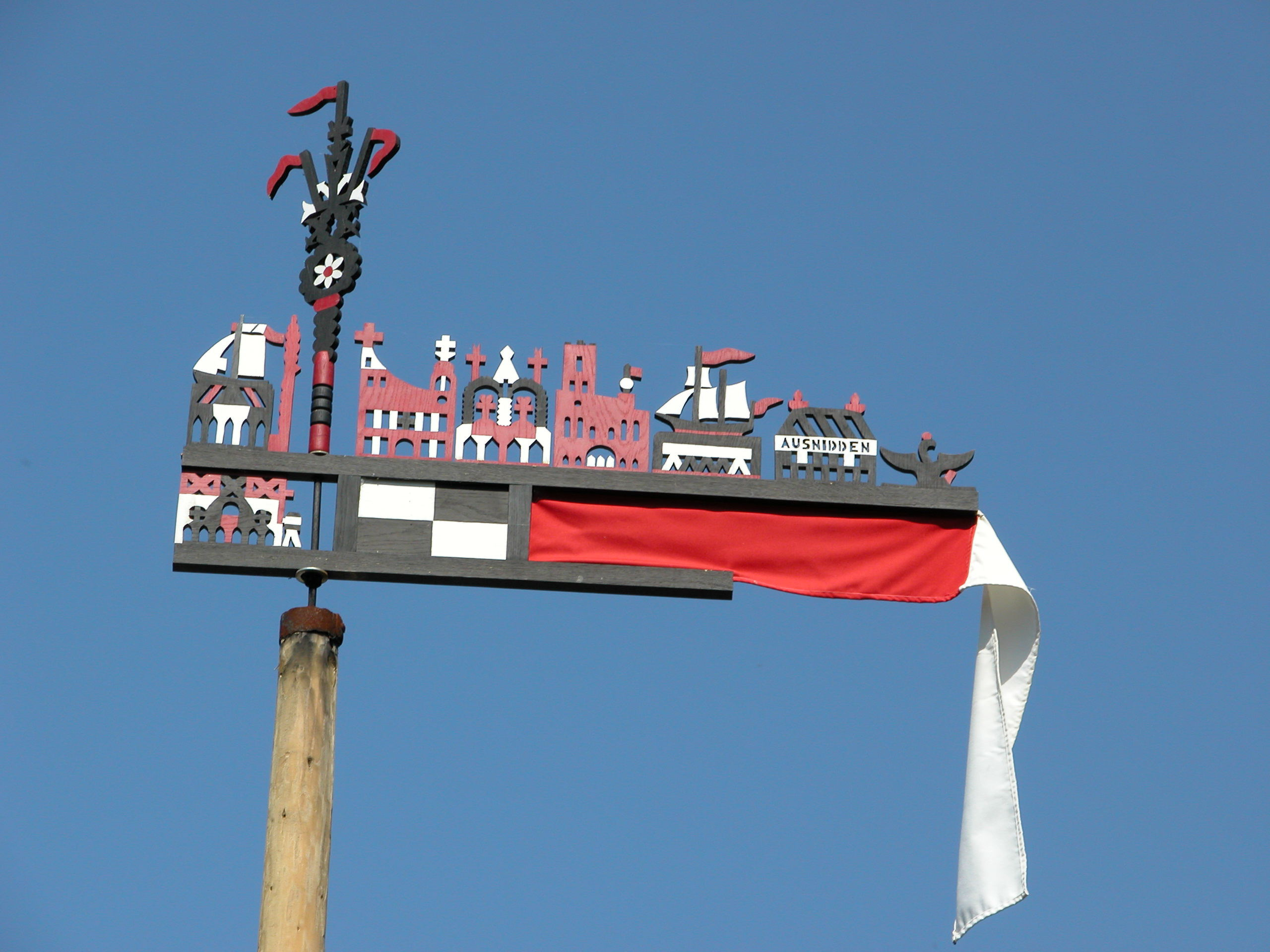 Curonian Lagoon, (former East Prussia): Curonian flag from Nida.